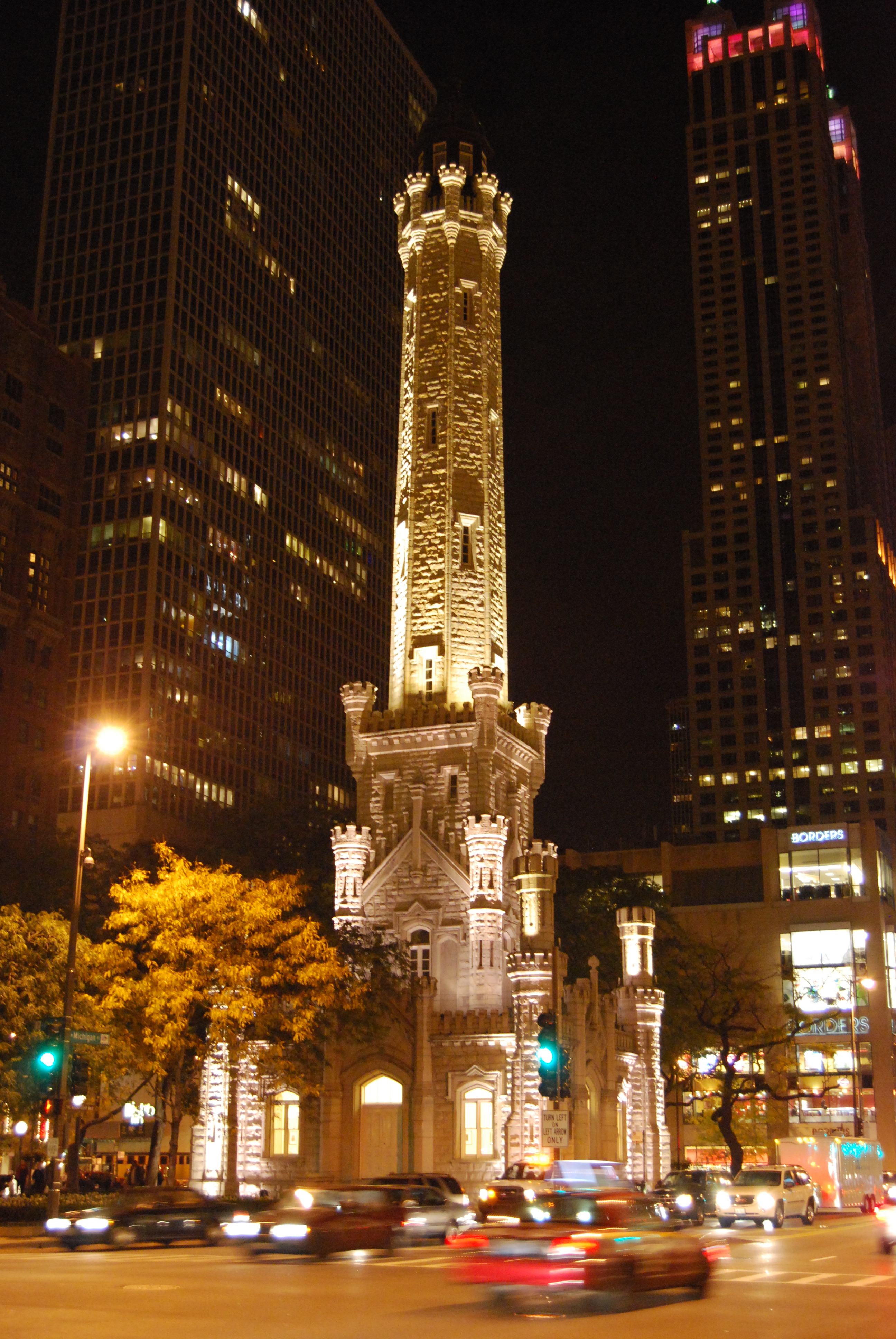 Chicago Water Tower at Night